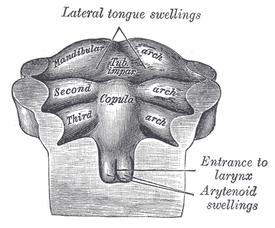 Floor of pharynx of human embryo of about the end of the fourth week. (From model by Peters.)